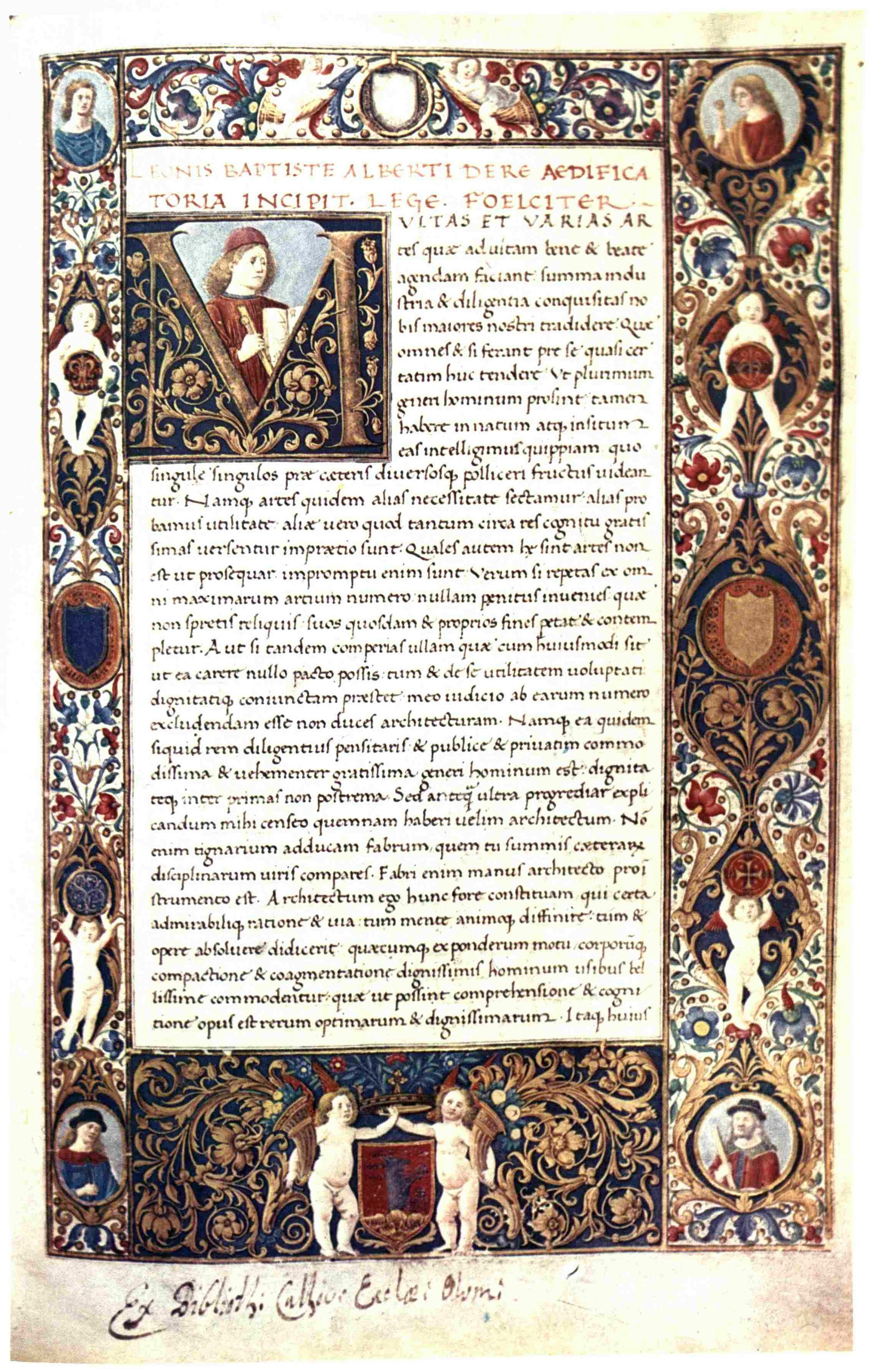 The preface of the treatise „De re aedificatoria“ in the manuscript Olomouc, Státní Archiv, Domské i Kapitolní Knihovna, Cod. Lat. C. O. 330.